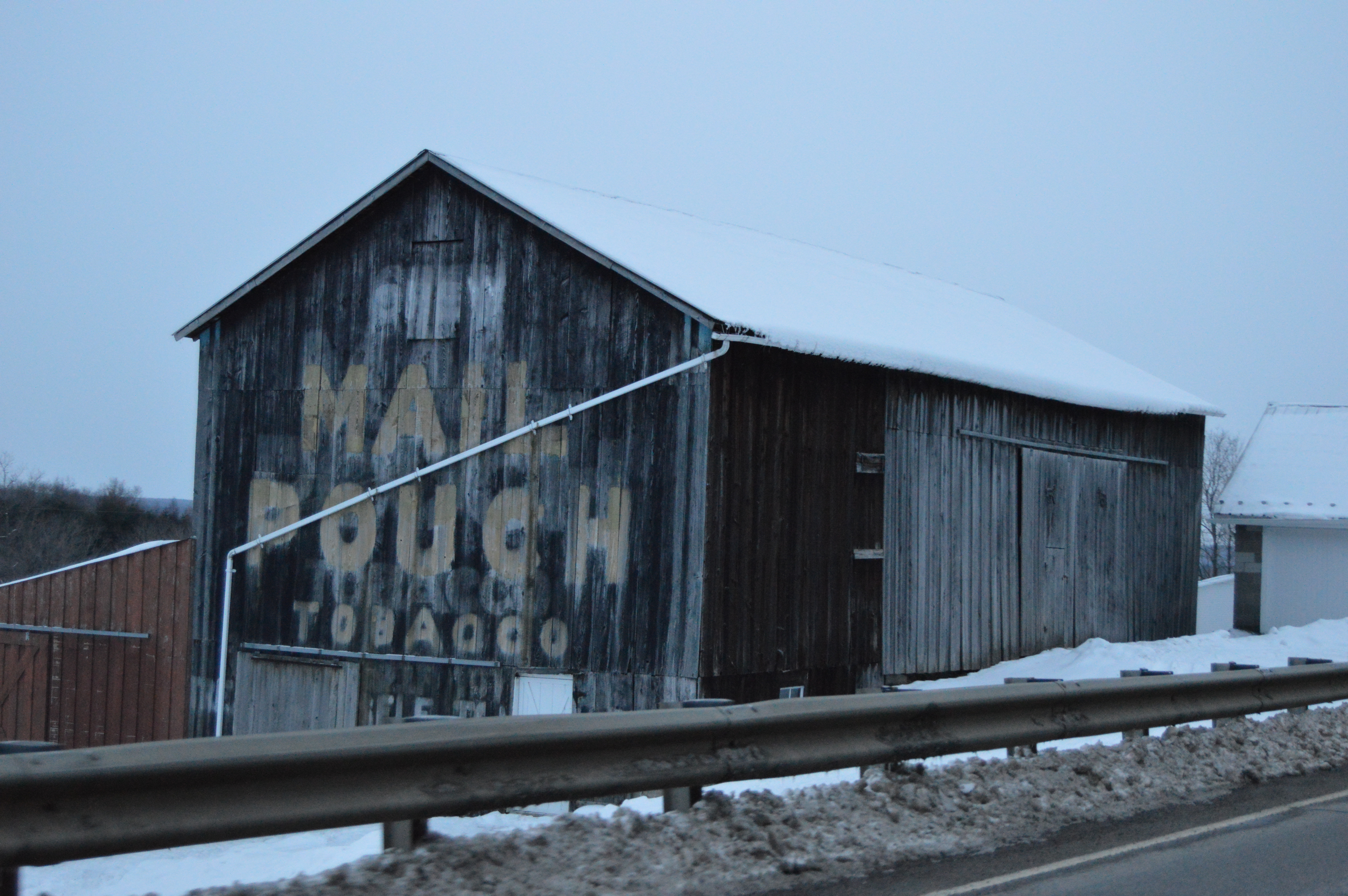 Northern and western sides of a Mail Pouch Tobacco barn on the eastern side of Pennsylvania Route 18 south of Adamsville in Sugar Grove Township, Mercer County, Pennsylvania, United States.